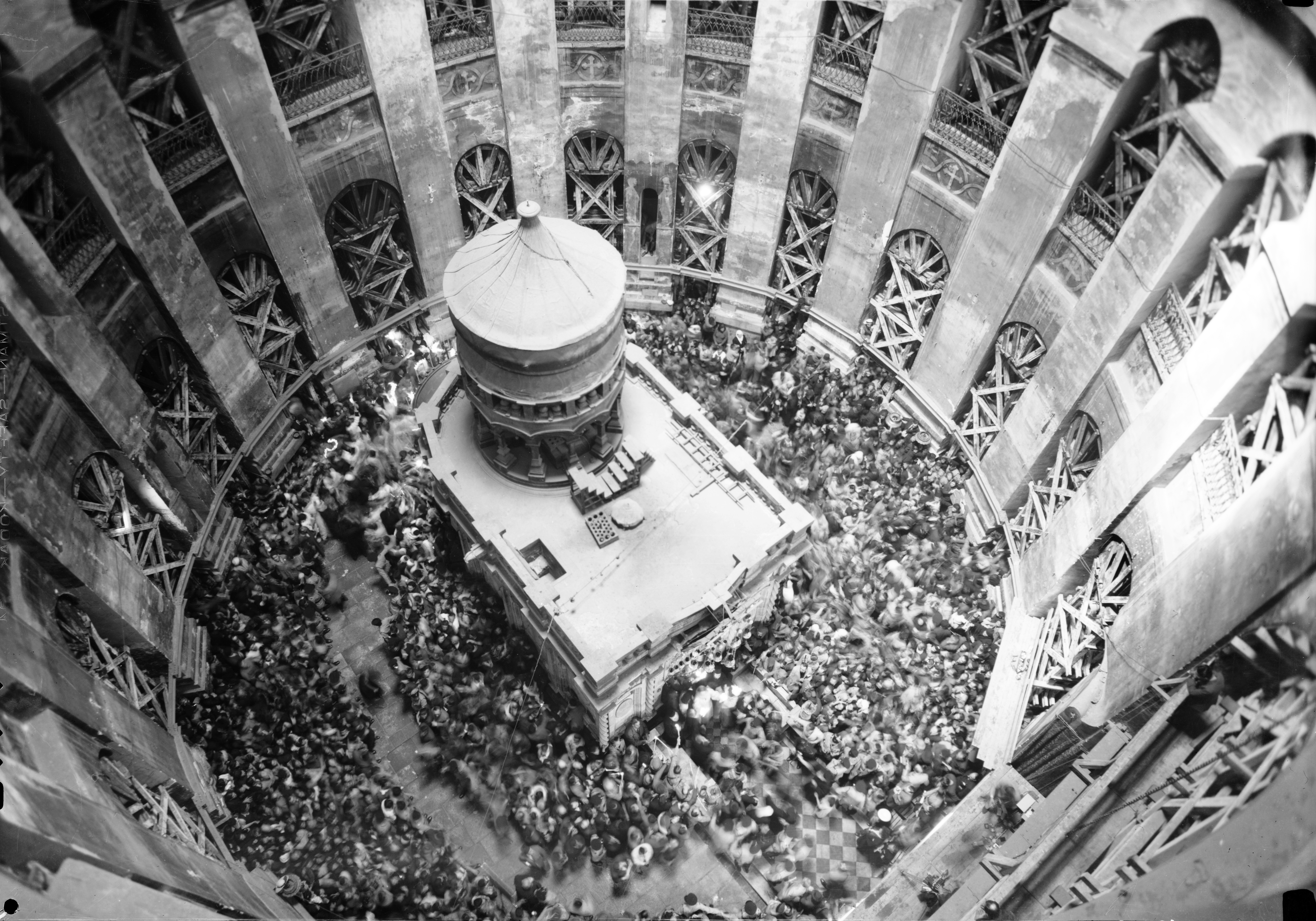 Calendar of religious ceremonies in Jer. [i.e., Jerusalem] Easter period, 1941. Holy fire ceremony seen from the dome.